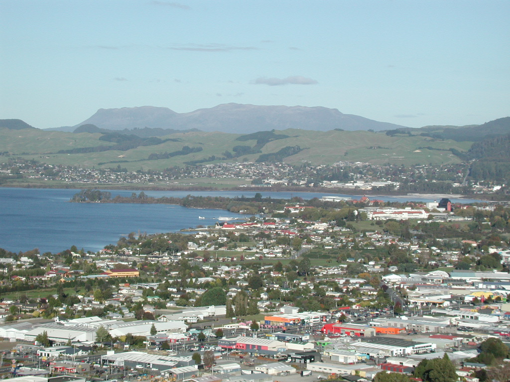 View over Rotorua with Mount Tarawera in the background.